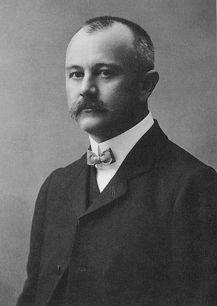 Jovan Cvijić. Photography by Milan Jovanović. 1911.